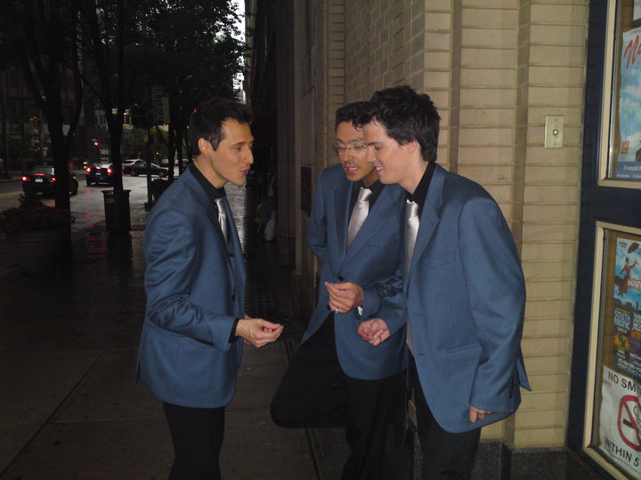 The Earth Angels spanish doo wop band performing the traditional street corner style in Pittsburgh, Pensilvania. The picture was taken during their participation in the festival of this genre celebrated at the Benedum Center for the performing arts in this city in 2010